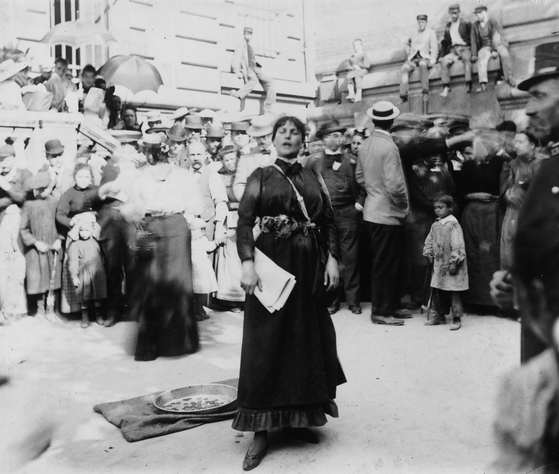 Eugénie Buffet albumen print 16.9 x 21.6 cm ca 1920